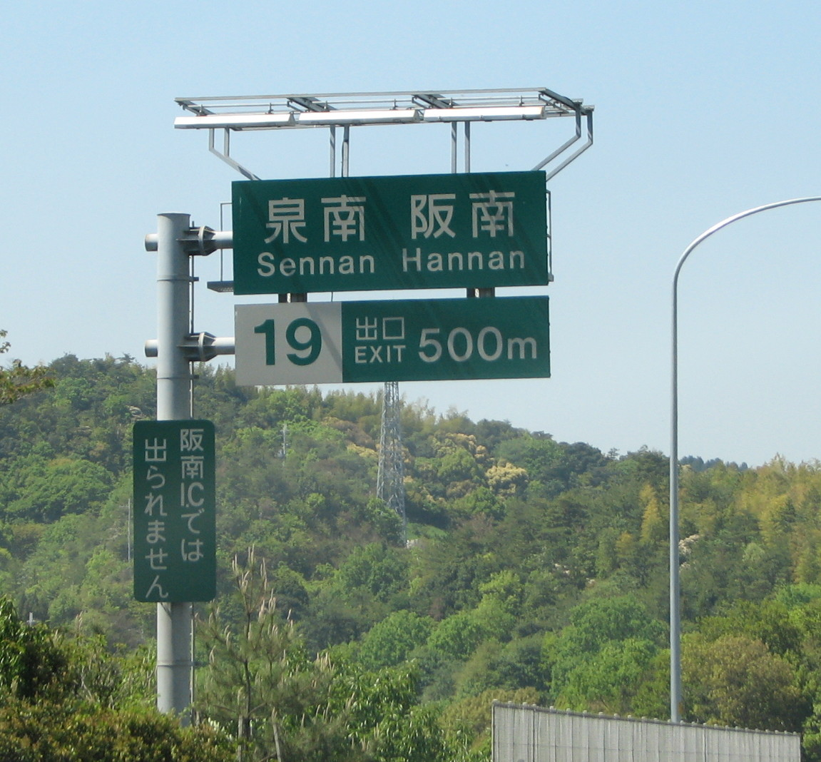 Sennan IC